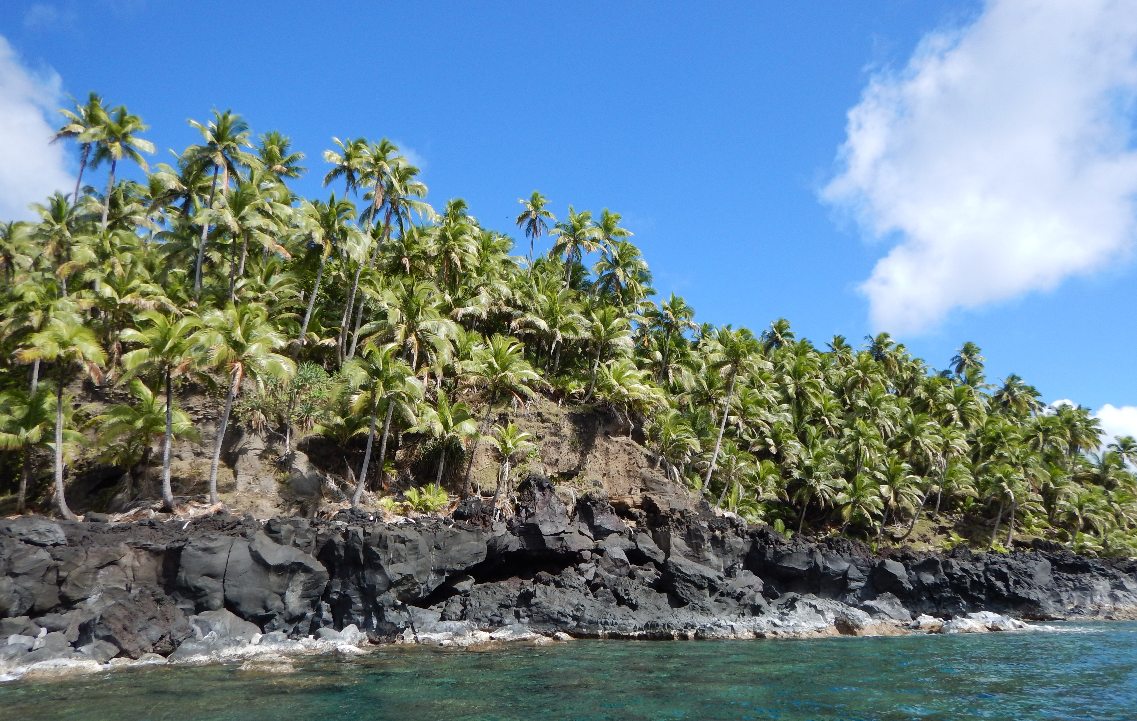 The frozen lava of the Agrihan coastline covered with palm trees also down to the sea. Image ID: line6897, NOAA's America's Coastlines Collection Location: Commonwealth of Northern Mariana Islands, Saipan Photographer: Allen Shimada, NOAA/NMFS/OST